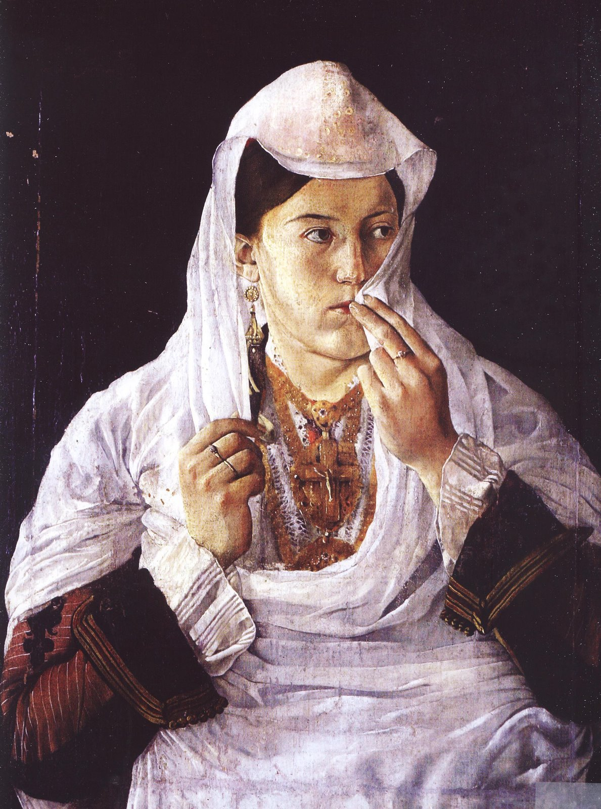 Kolë Idromeno, Motra Tone (called also The Albanian Mona Lisa), 75x60 cm